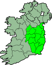 Map showing location of Leinster province, Ireland